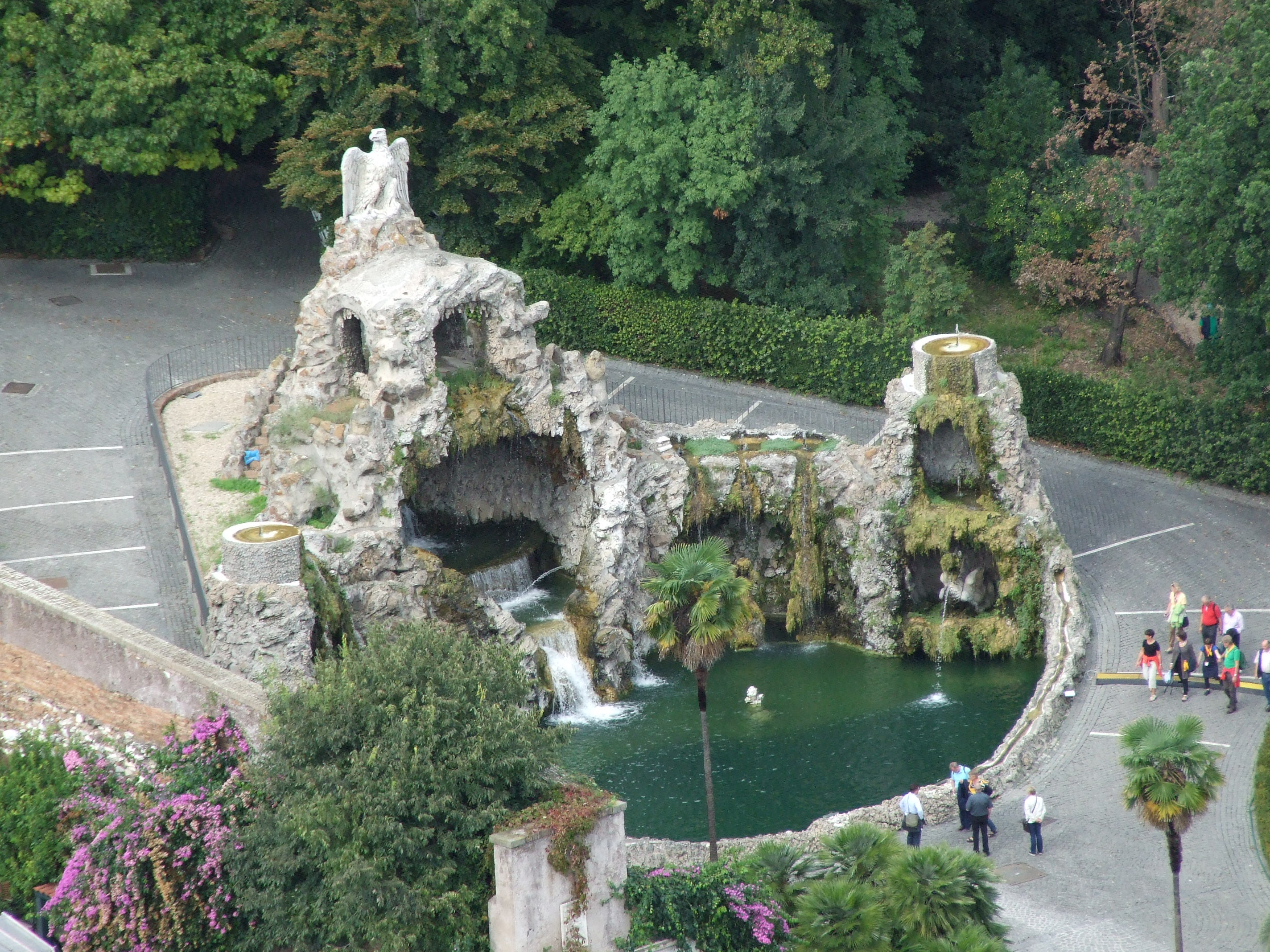 Fountain of the Eagle, Vatican gardens, Rome